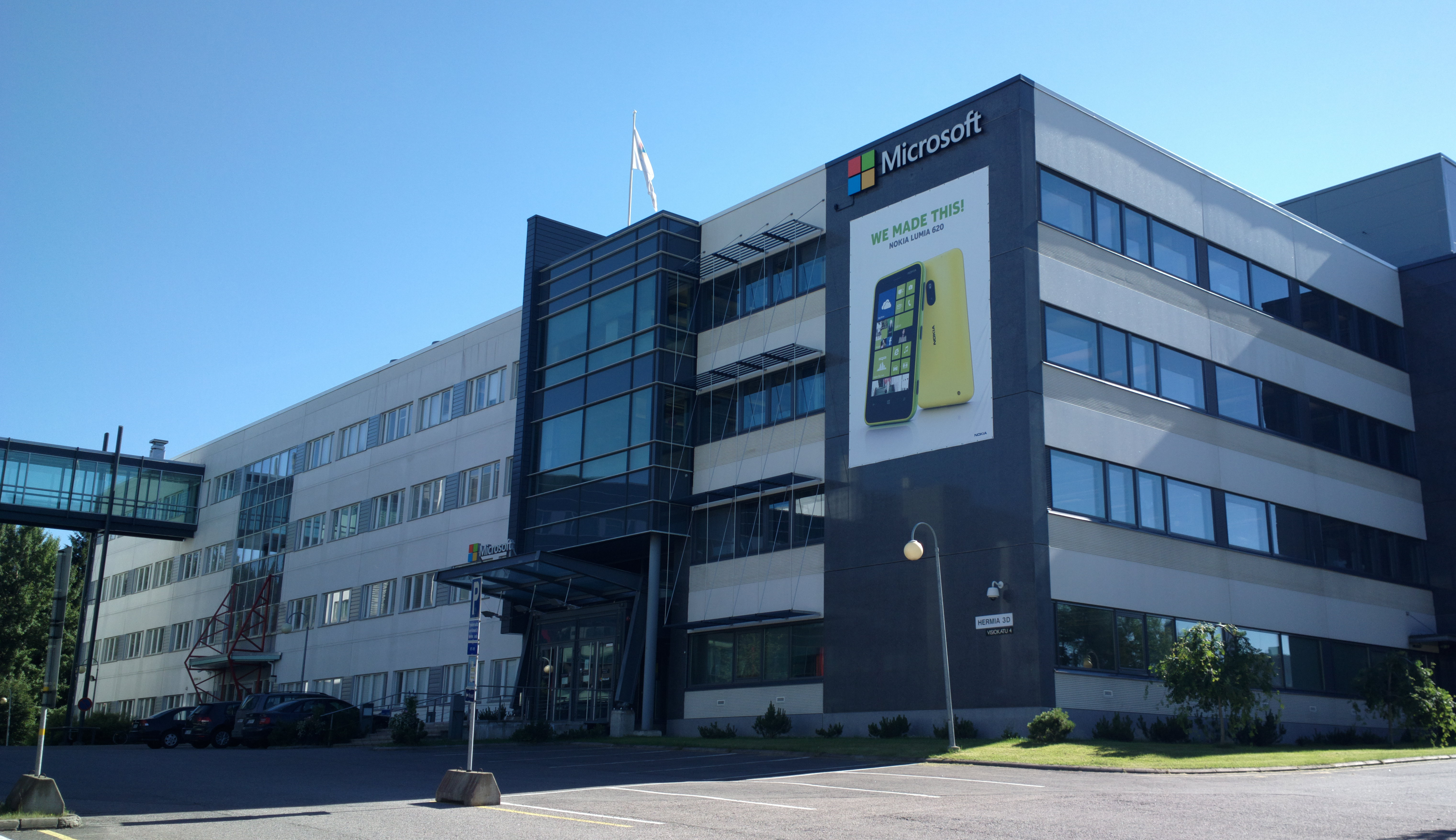 Microsoft Mobile office building in Hervanta 2014